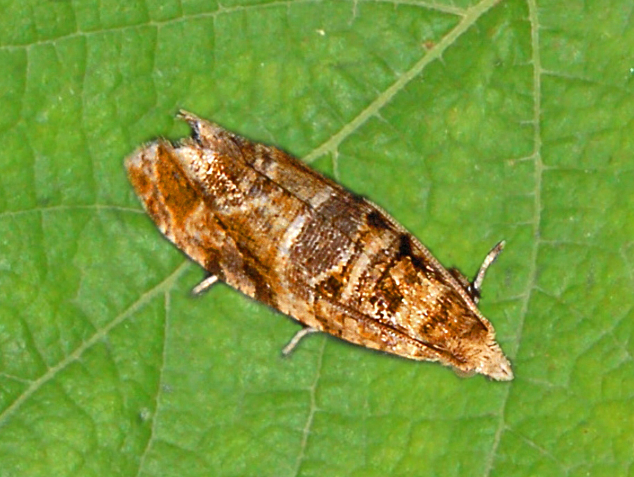 Adult of Lobesia botrana. Sant'Albano Stura, Cuneo, Italy